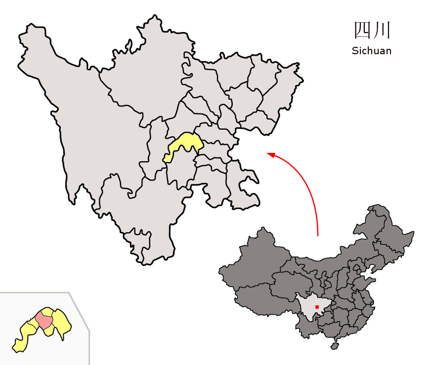 Location of Dongpo District (pink) and Meishan Prefecture (yellow) within Sichuan province of China Map drawn in october 2007 using various sources, mainly : Sichuan province administrative regions GIS data: 1:1M, County level, 1990 Sichuan Counties map from